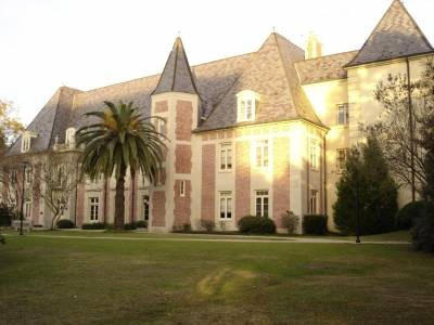 The French House, home to LSU Honors College, september 2004. Author : Nicolas Larchet